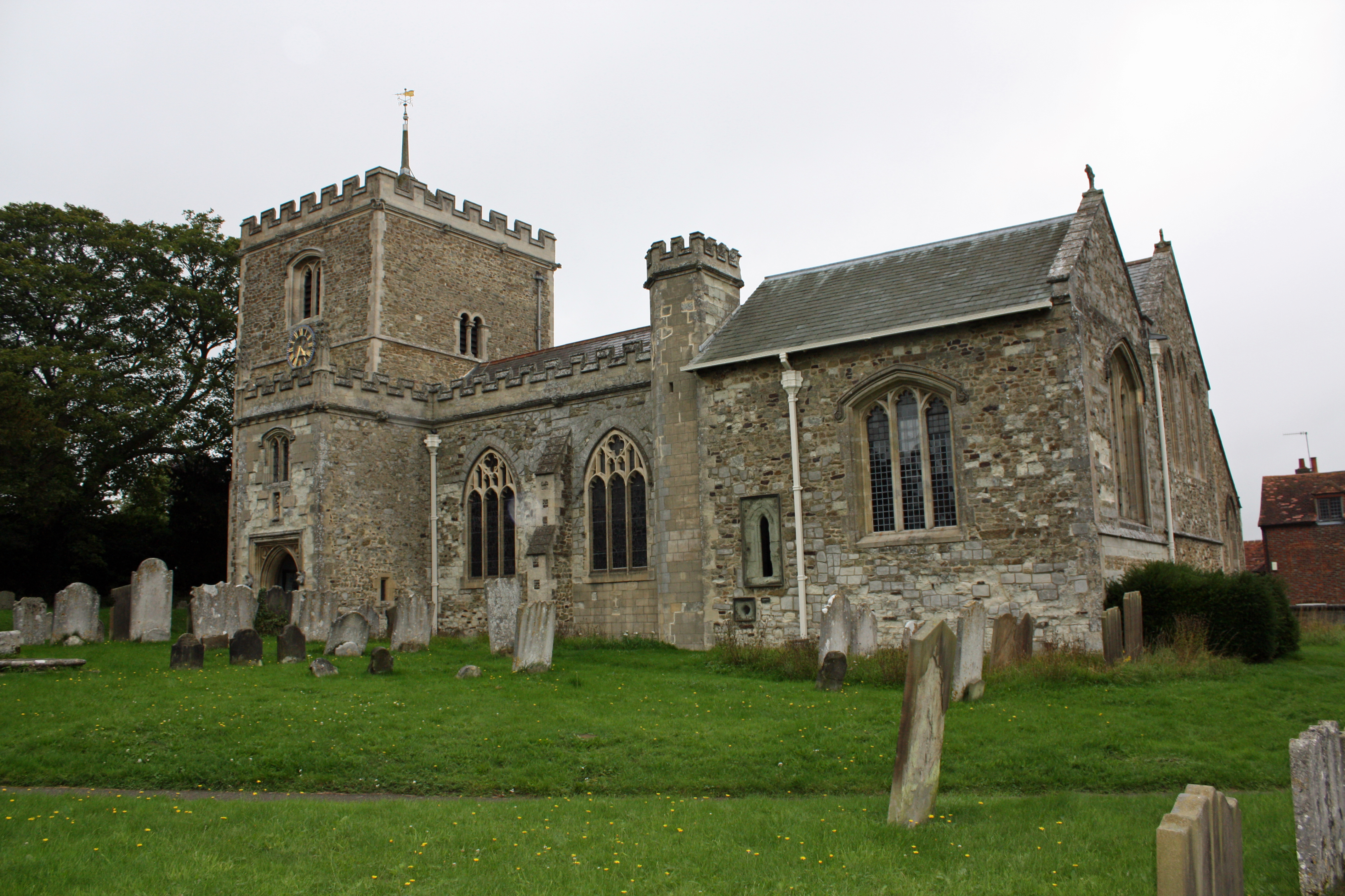 Exterior of Bletchingley Church